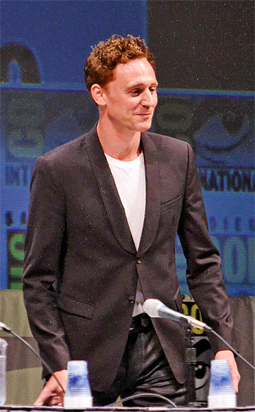 Tom Hiddleston at the 2010 San Diego Comic Con International on July 24, 2010